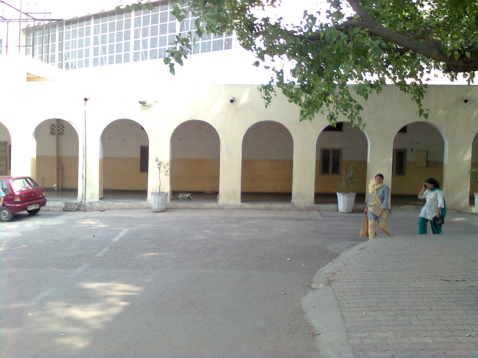 Workshops of Indira Gandhi Institute of Technology, GGSIPU